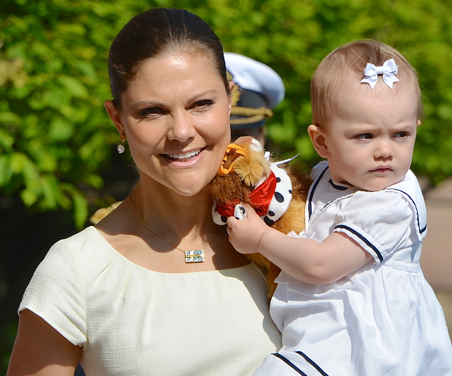 Crown Princess Victoria and Princess Estelle open the Palace´s gates from the Palace´s garden Logården, June 6, 2013.